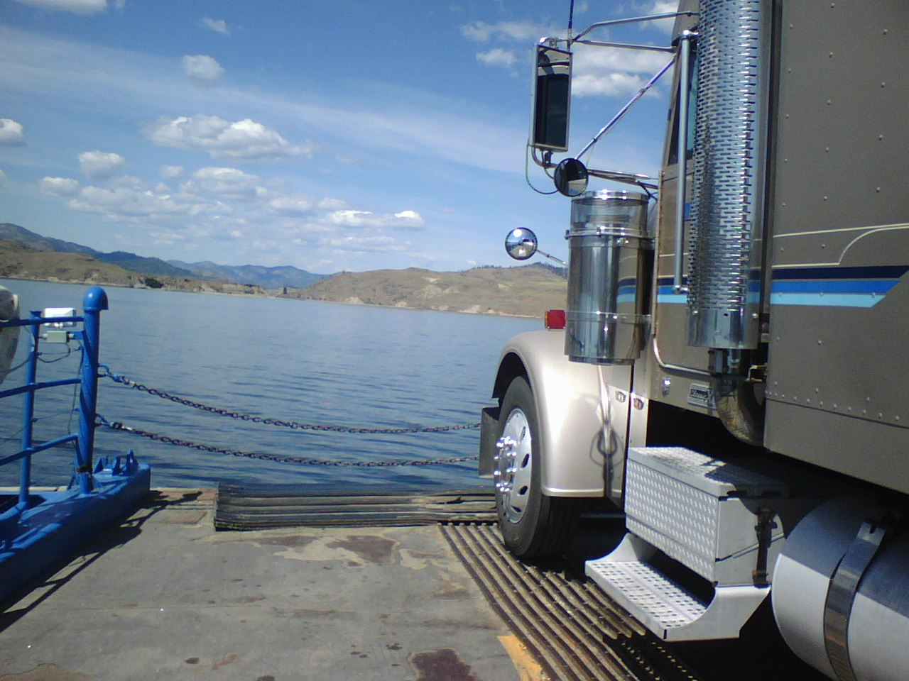 Crossing Roosevelt Lake on the Keller ferry with my truck.